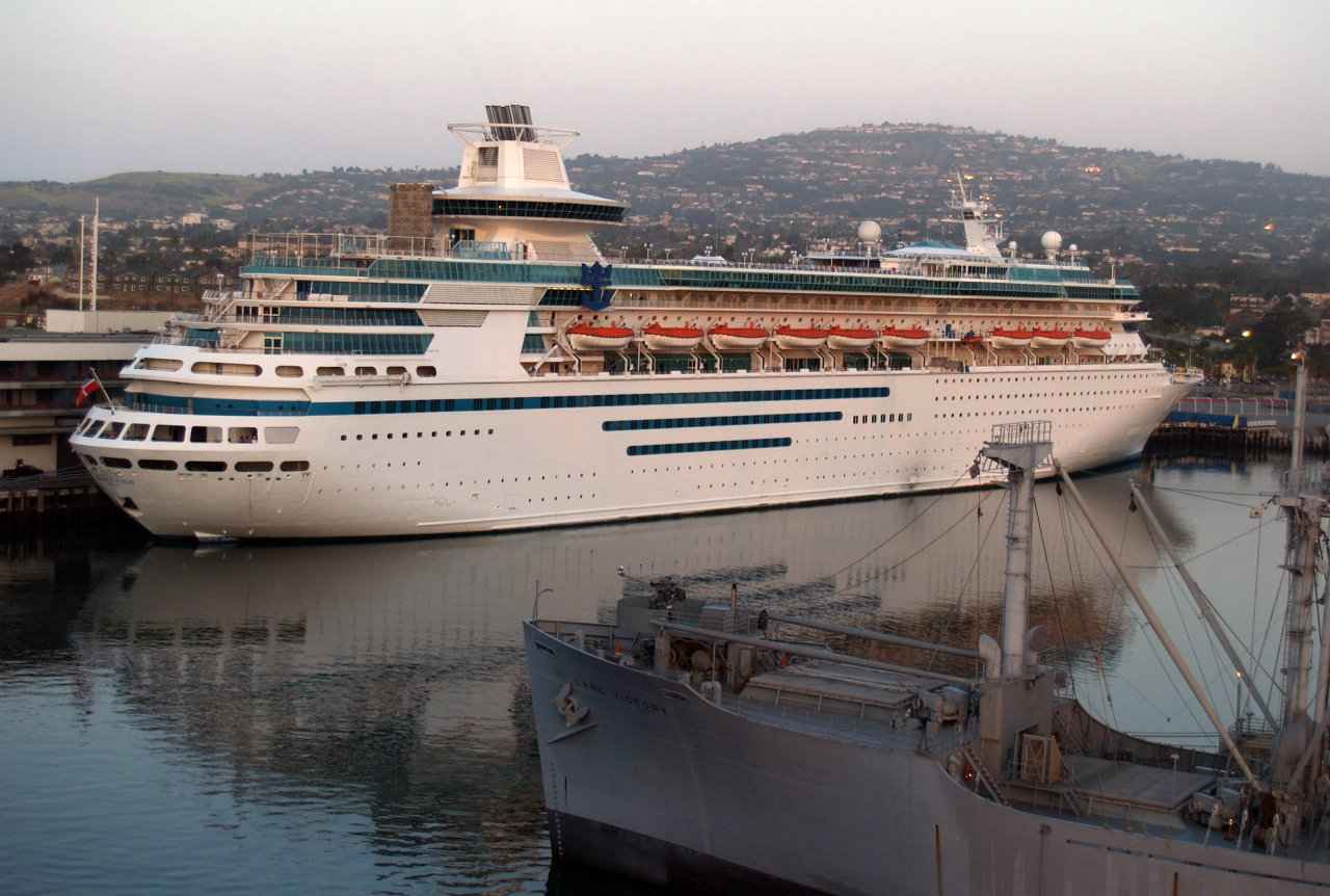 IMO number : 8819500 Name of ship : MONARCH OF THE SEAS Call Sign : C6FZ9 Gross tonnage : 73937 Type of ship : Passenger (Cruise) Ship Year of build : 1991 Flag : Bahamas Status of ship : In Service